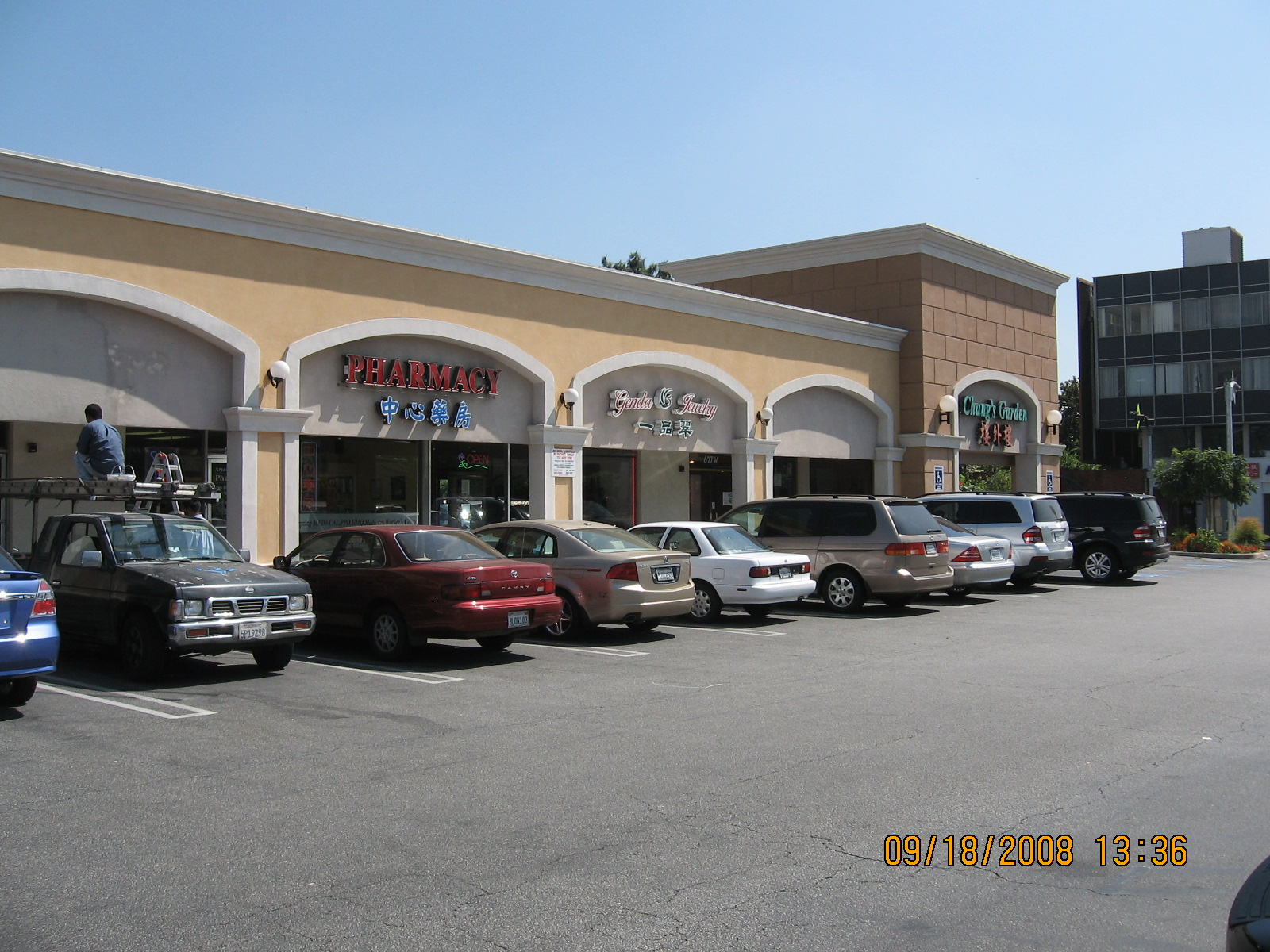 One plaza in Arcadia, California.